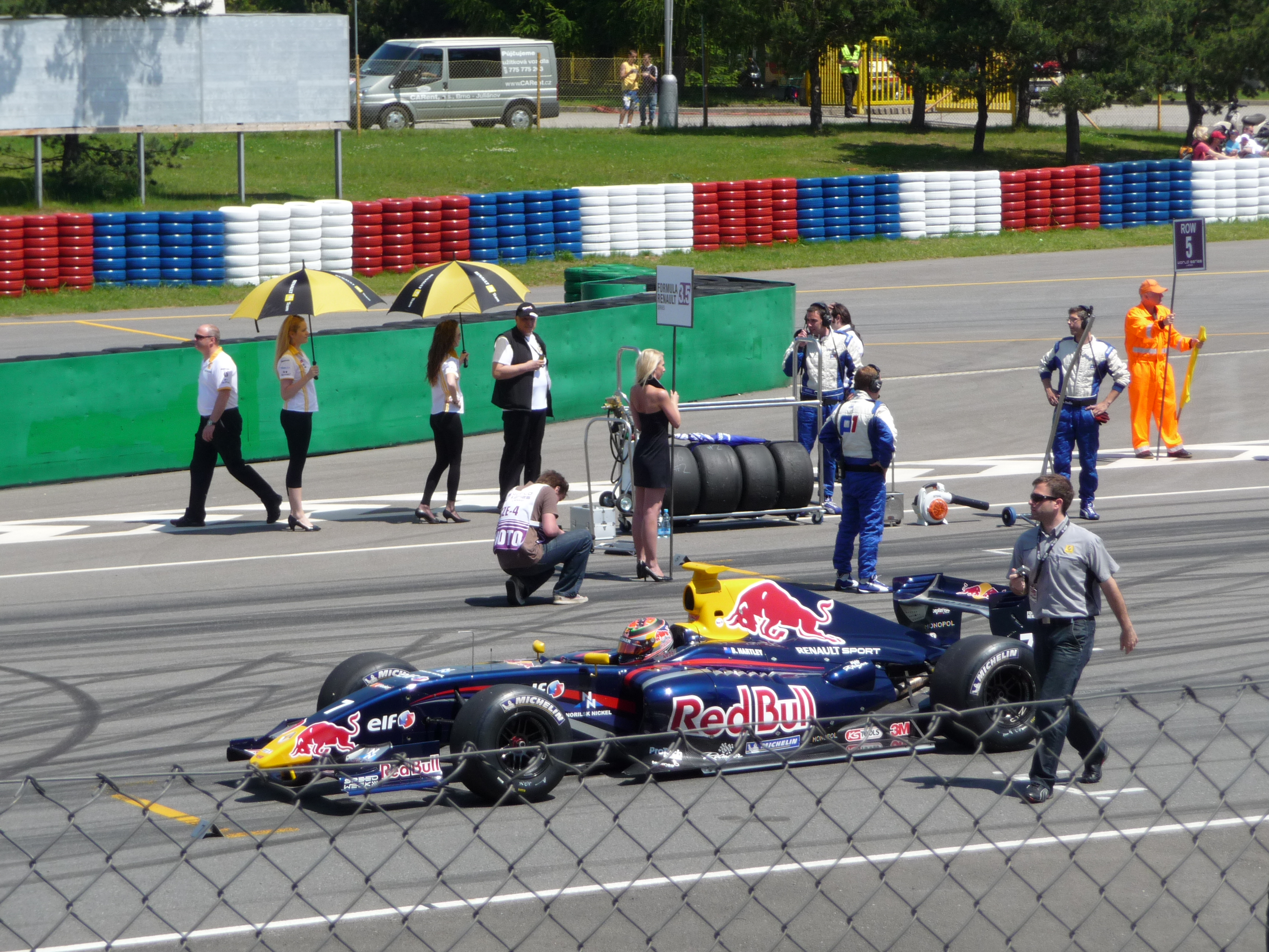 Brendon Hartley, Formula Renault 3.5 Series, 2nd race, 2010 Brno World Series by Renault -10-5-3-2◄►+2+3+5+10